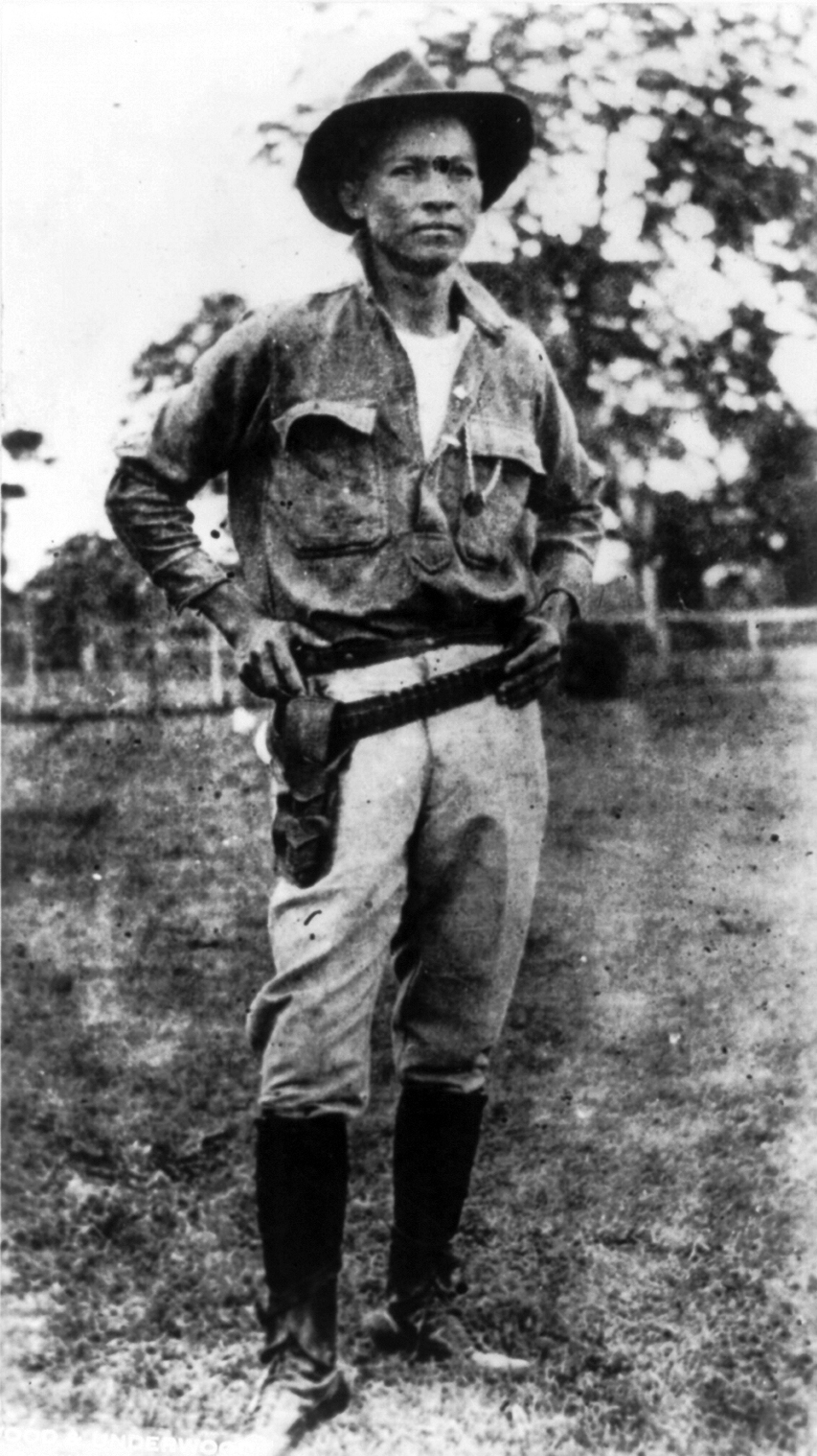 Augusto César Sandino, Nicaraguan revolutionary